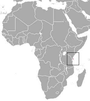 Pemba Flying Fox (Pteropus voeltzkowi) range